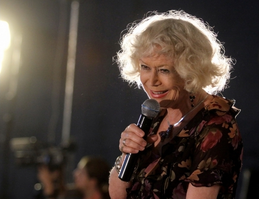 Odessa International Film Festival 2012. Svetlana Nemolyaeva